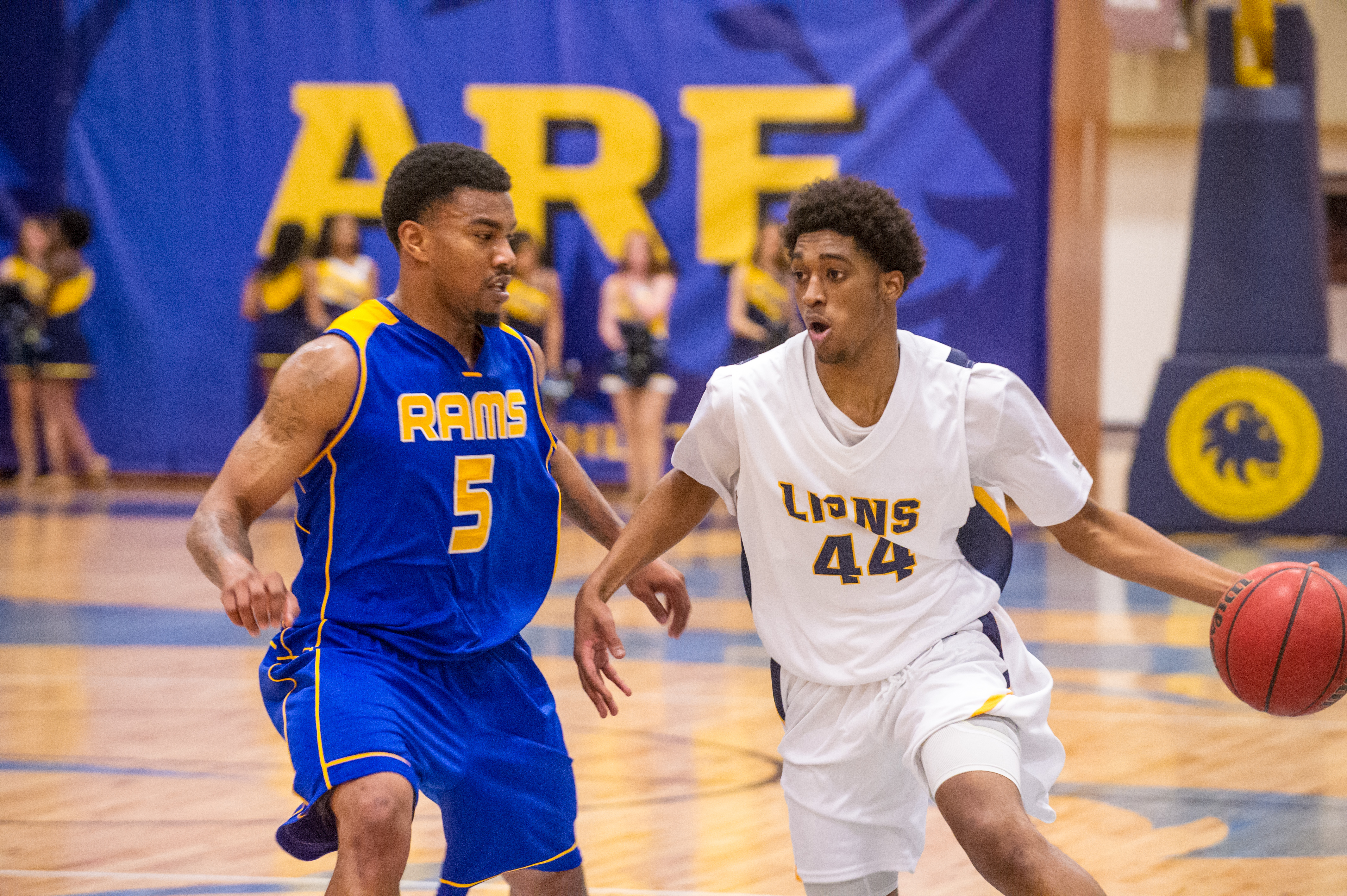 athletics-MBSK vs ASU-6804.jpg 2013–14 Texas A&M–Commerce Lions men's basketball team